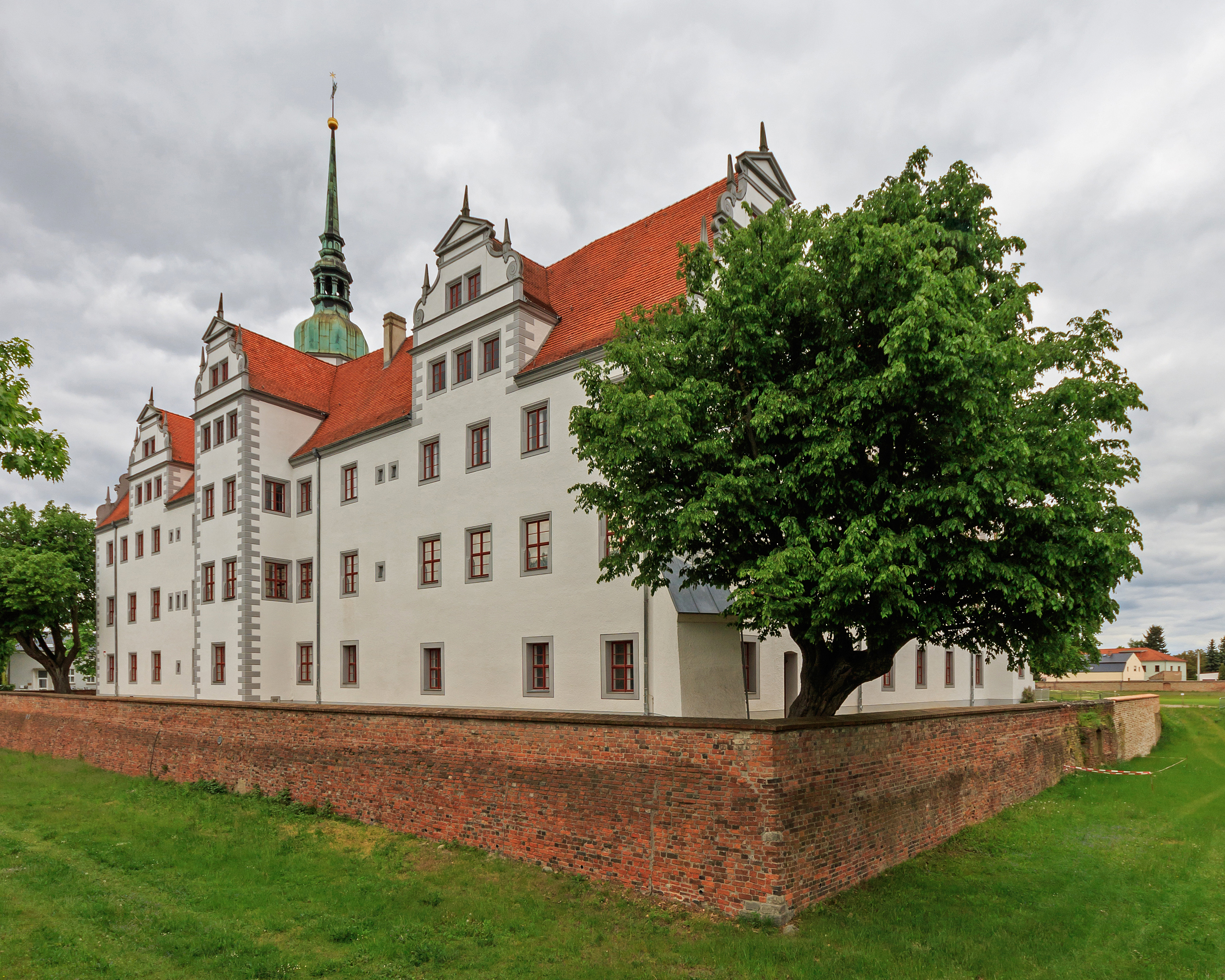 Doberlug-Kirchhain (Brandenburg, Germany): Doberlug Castle